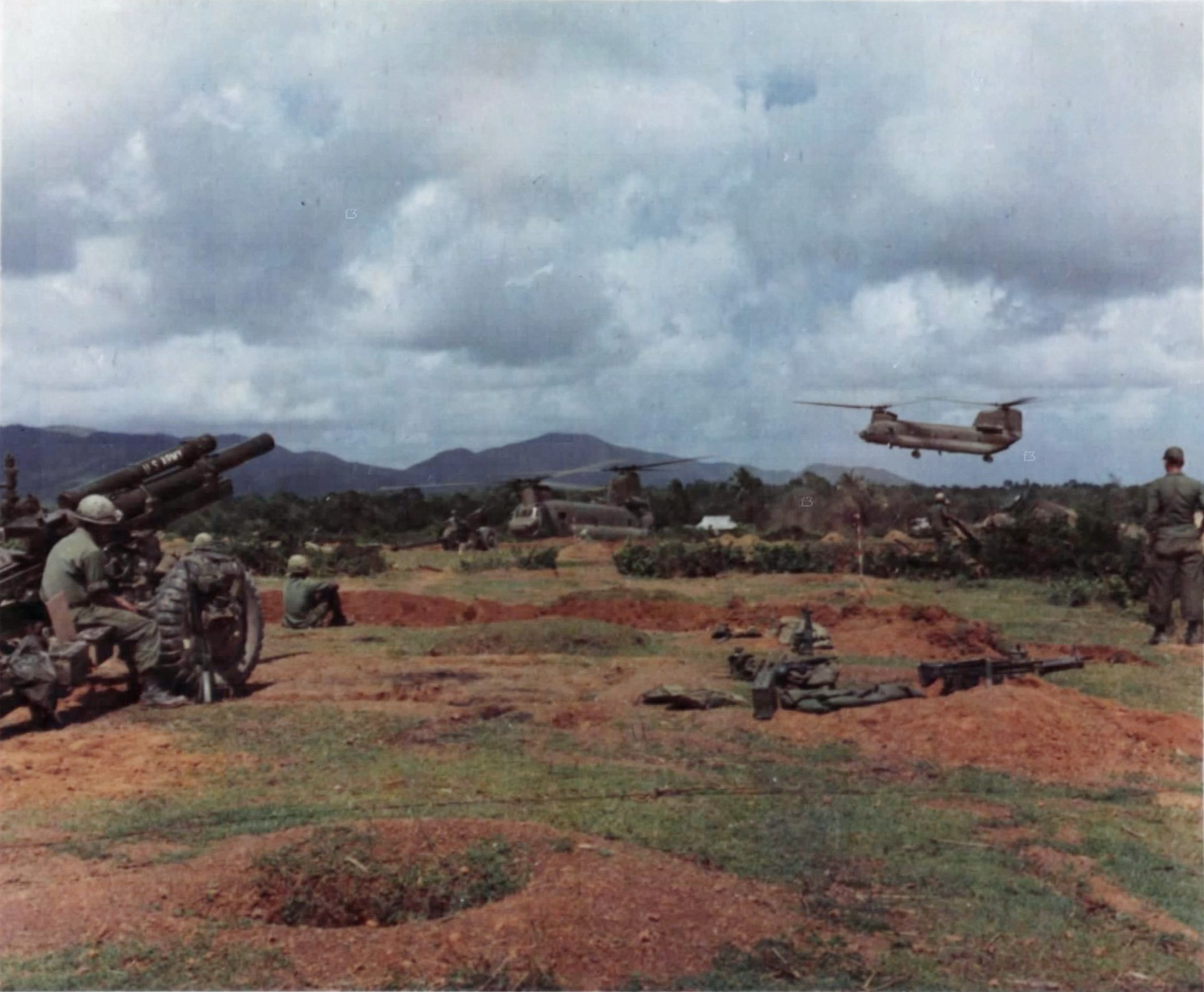 Troops of the 1st Cavalry Division move out by CH-47 helicopter near Bong Son during Operation Masher